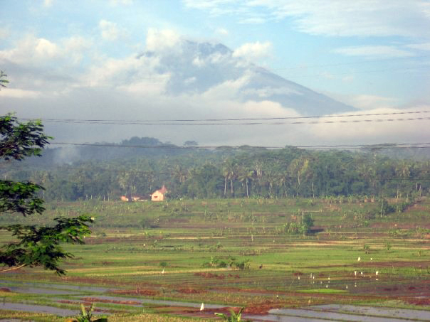 Rice fields in the shadow of a mountain in Pringsurat District, Temanggung Regency, Central Java, Indonesia.